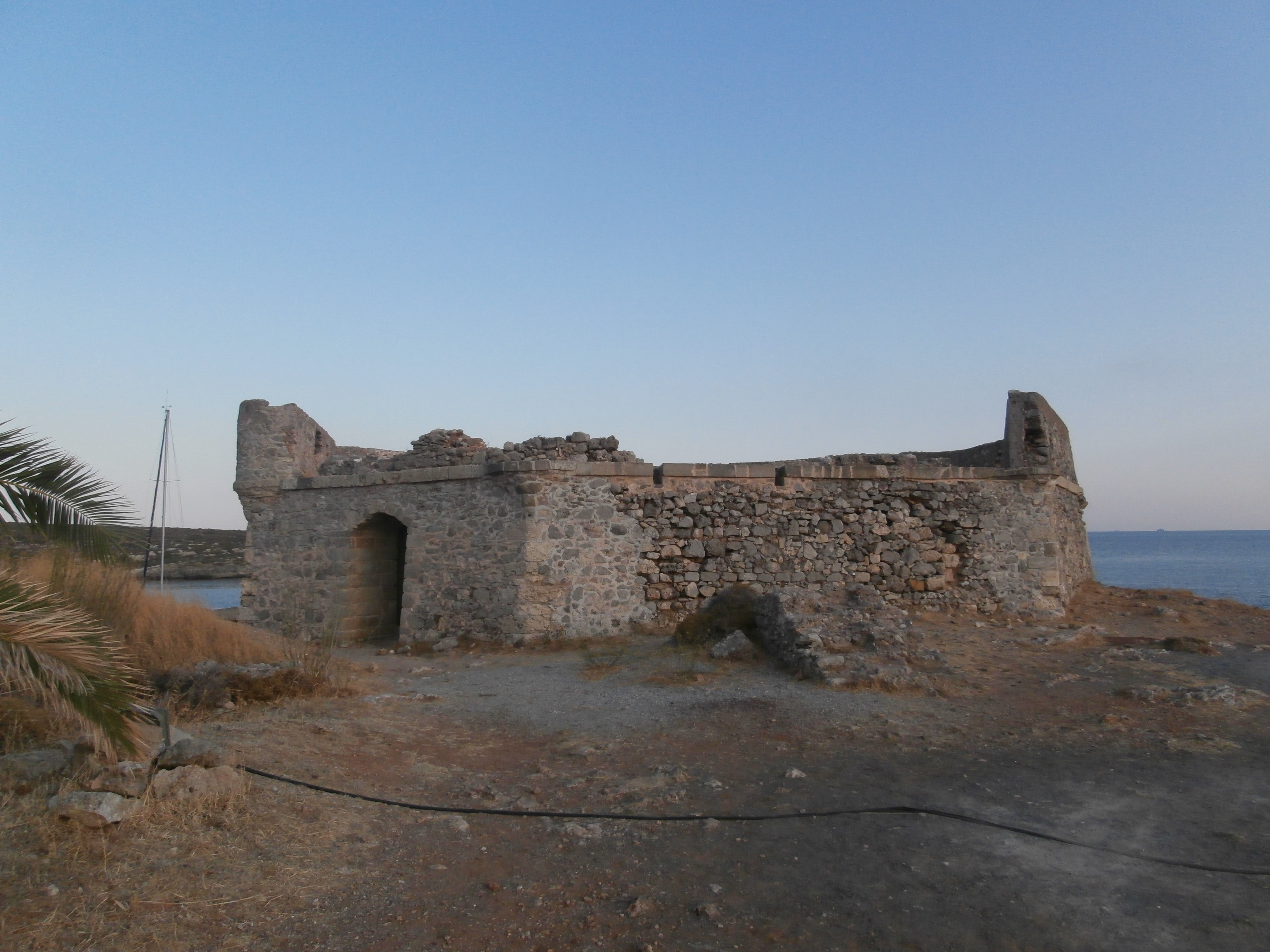 Small venetian fort (Fortetsa) at Avlemonas, Kythira